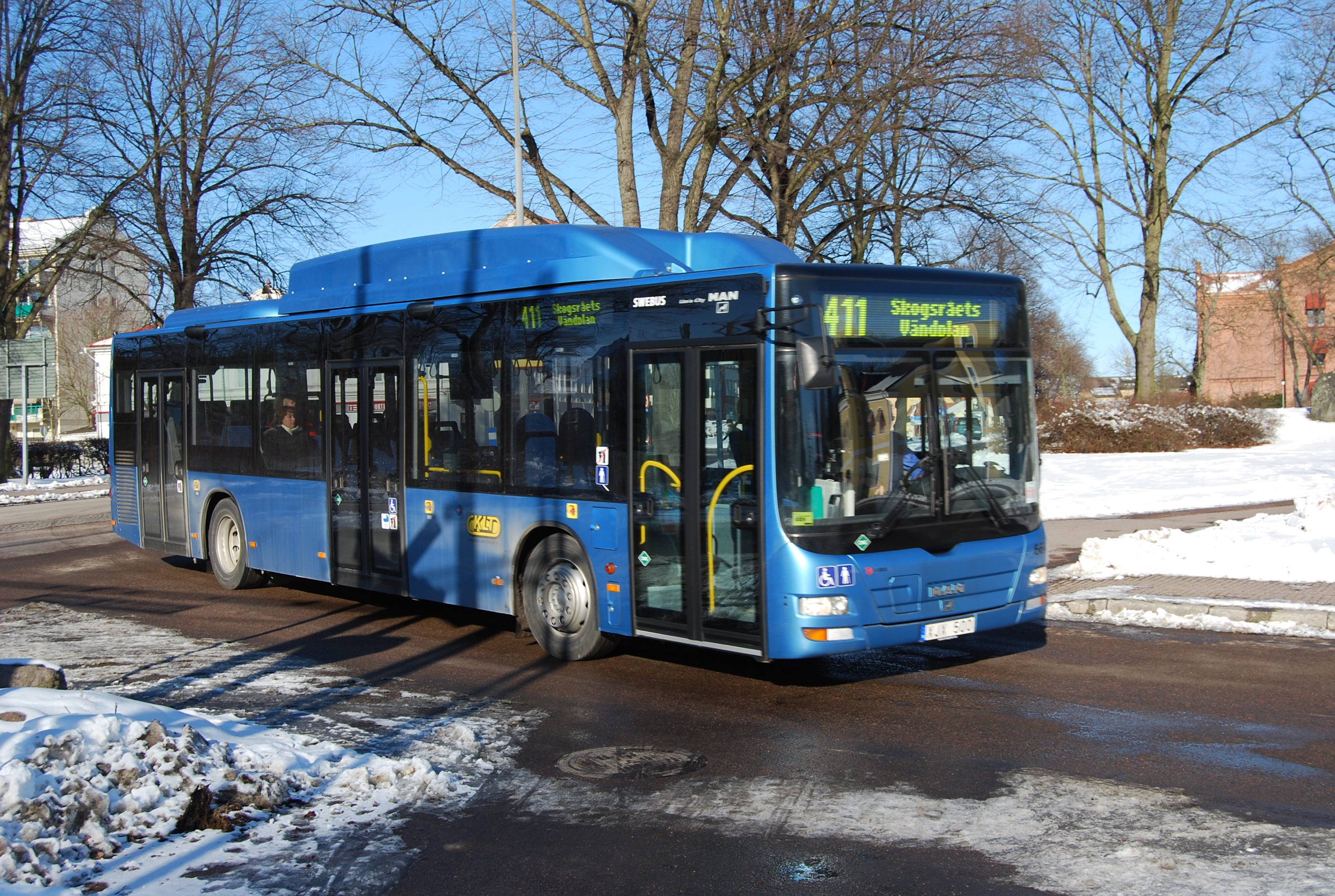 MAN Lion's City CNG buss in Kalmar.